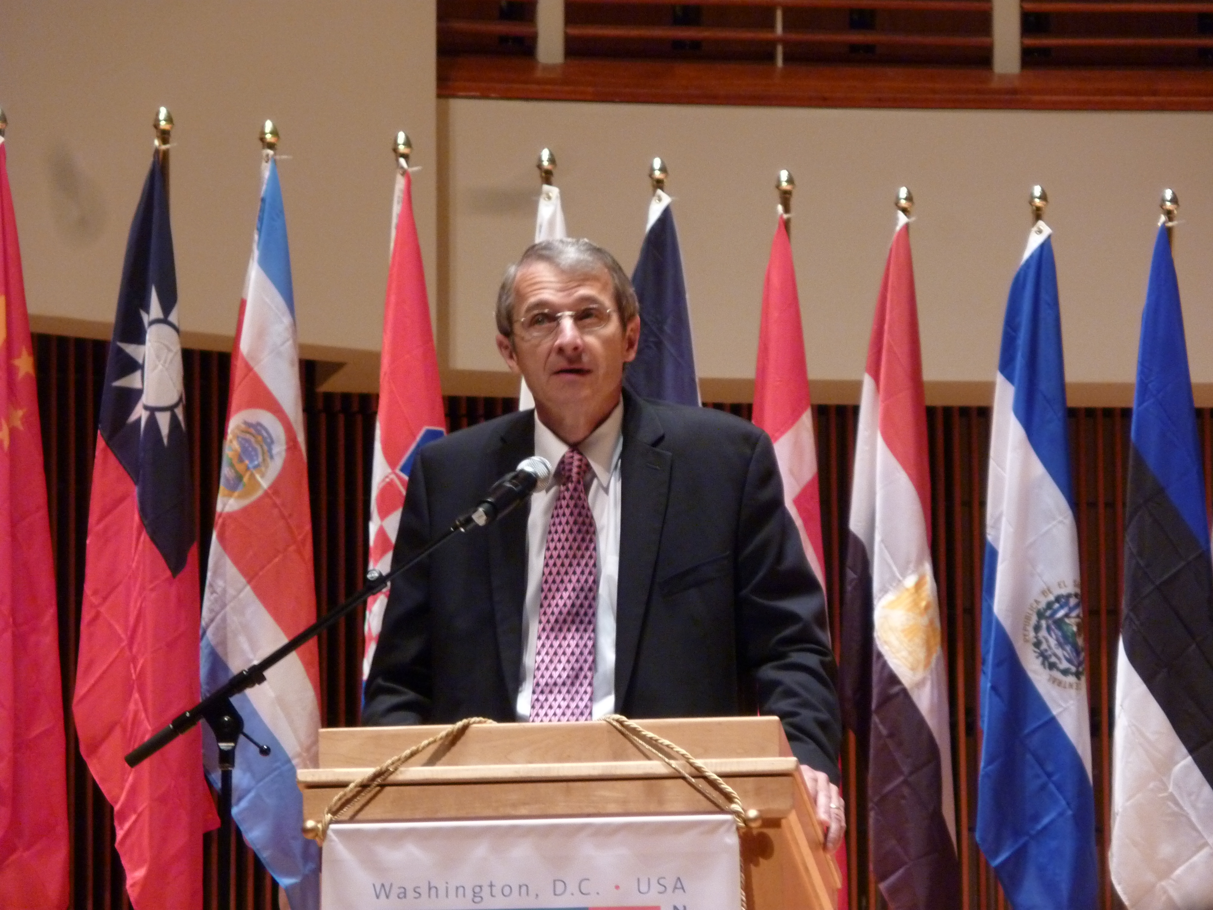 Nobel Prize in Chemistry (2005) Richard R. Schrock during the Opening Ceremony of 44th International Chemistry Olympiad, July 2012, Washington D.C.